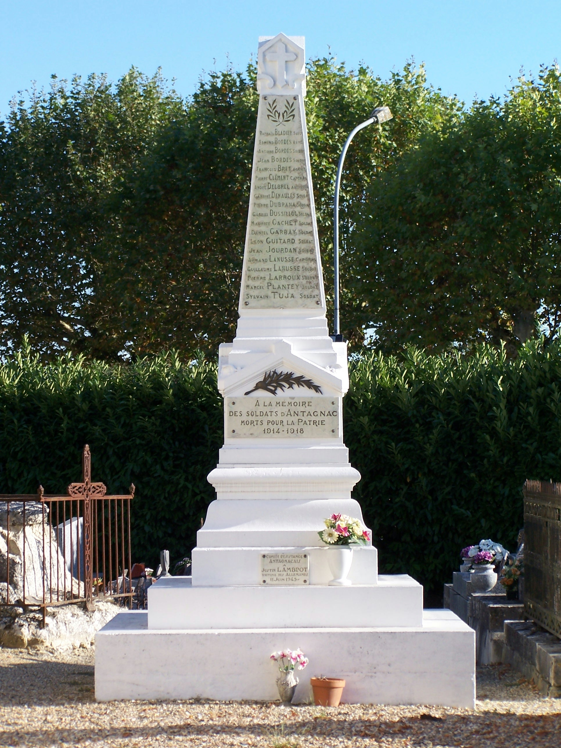 War memorial of Antagnac (Lot-et-Garonne, France)